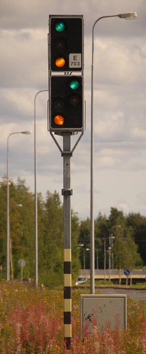 A Finnish railway home signal (top) displaying "Clear 35". The distant signal (bottom) is displaying "Expect 35". Signal may be passed not exceeding 35 km/h or the speed shown by ATC, there are turnouts within the next signal block. The driver must approach next signal prepared to pass it not exceeding 35 km/h.